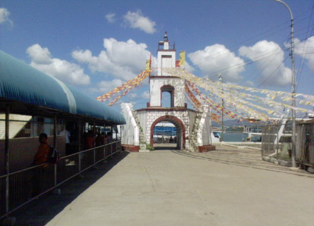 The Muelle Osmeña lighthouse in Barangay Poblacion